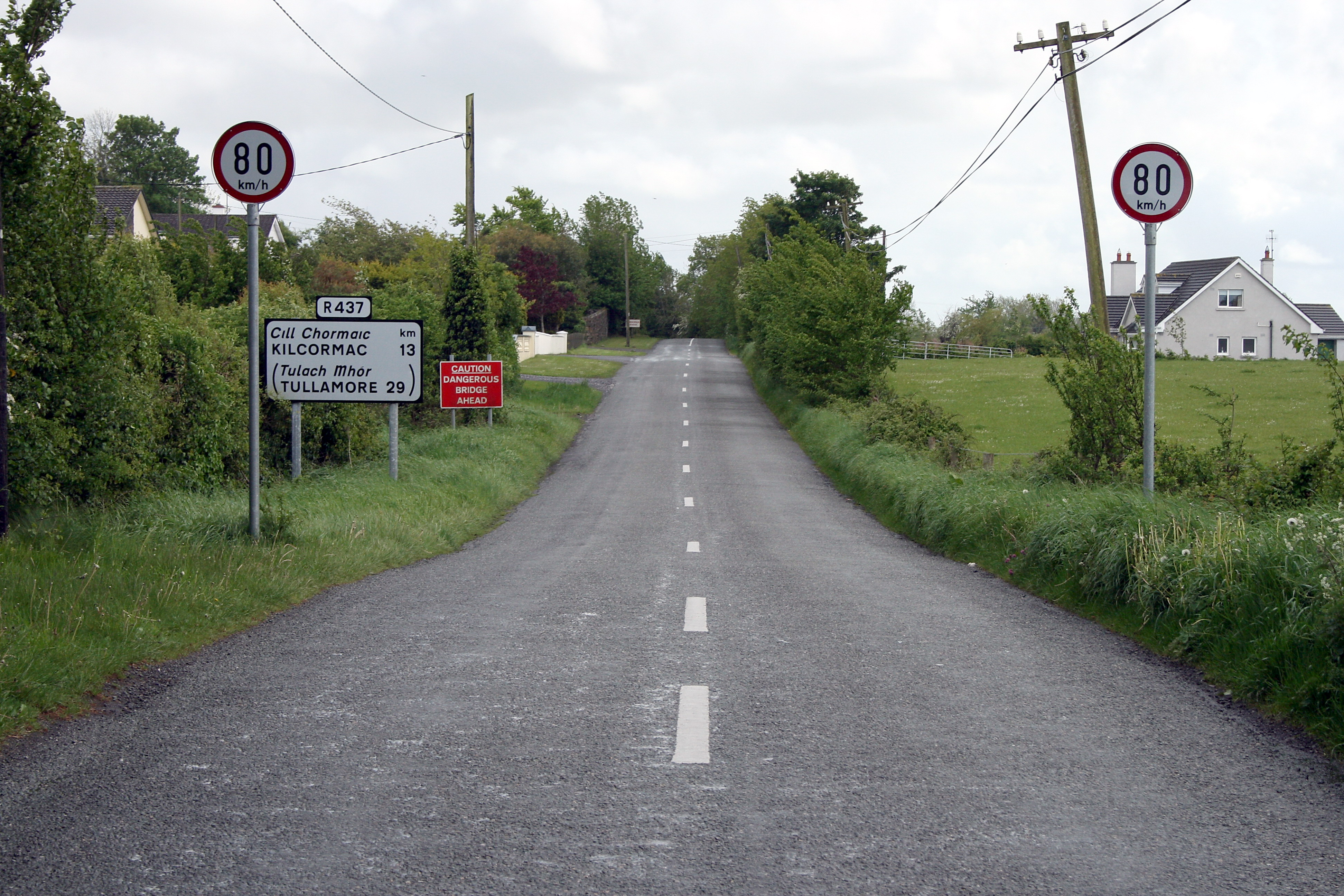 The R437 at its northern end, just outside Ferbane, County Offaly